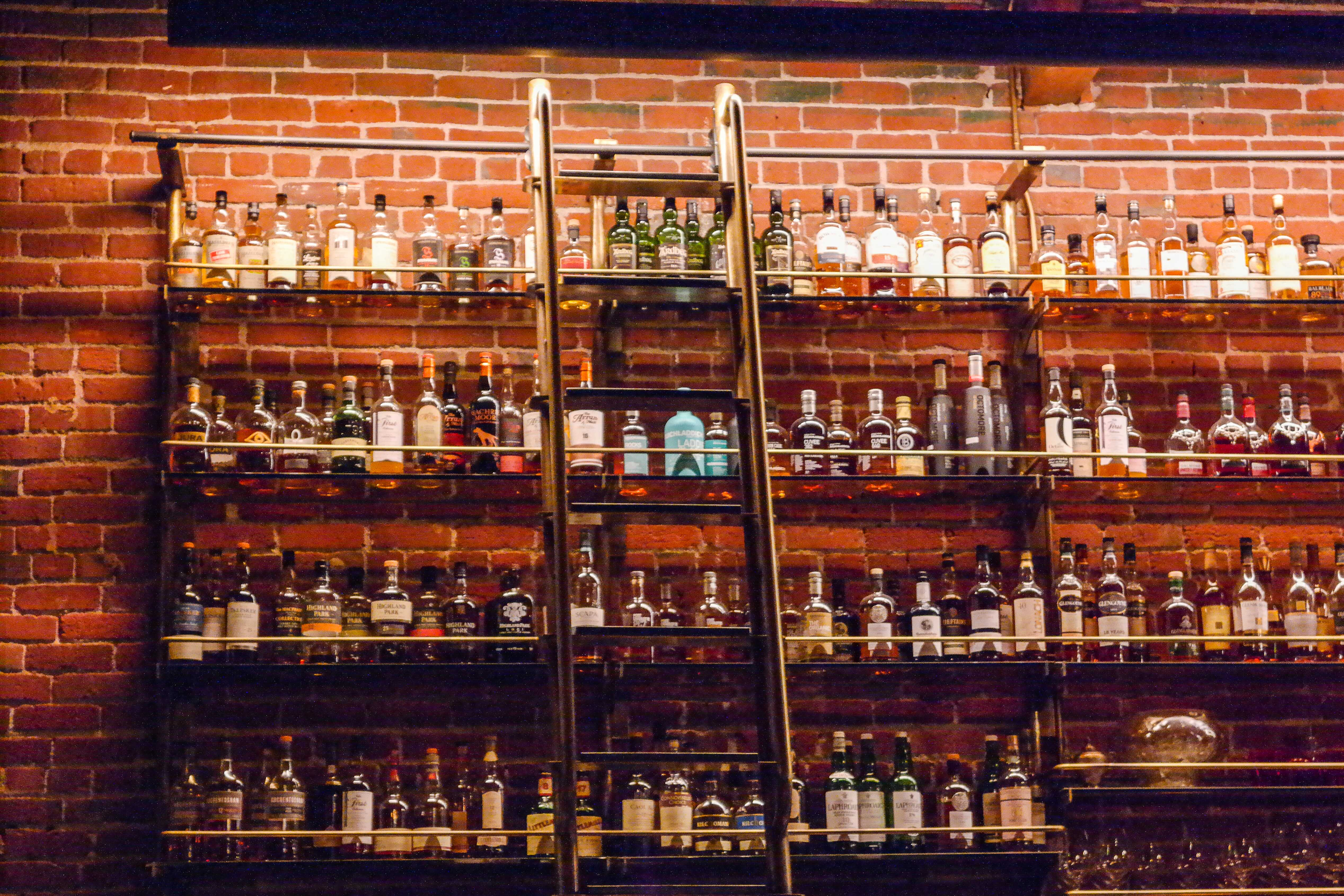 The Multnomah Whiskey Library in Portland, Oregon